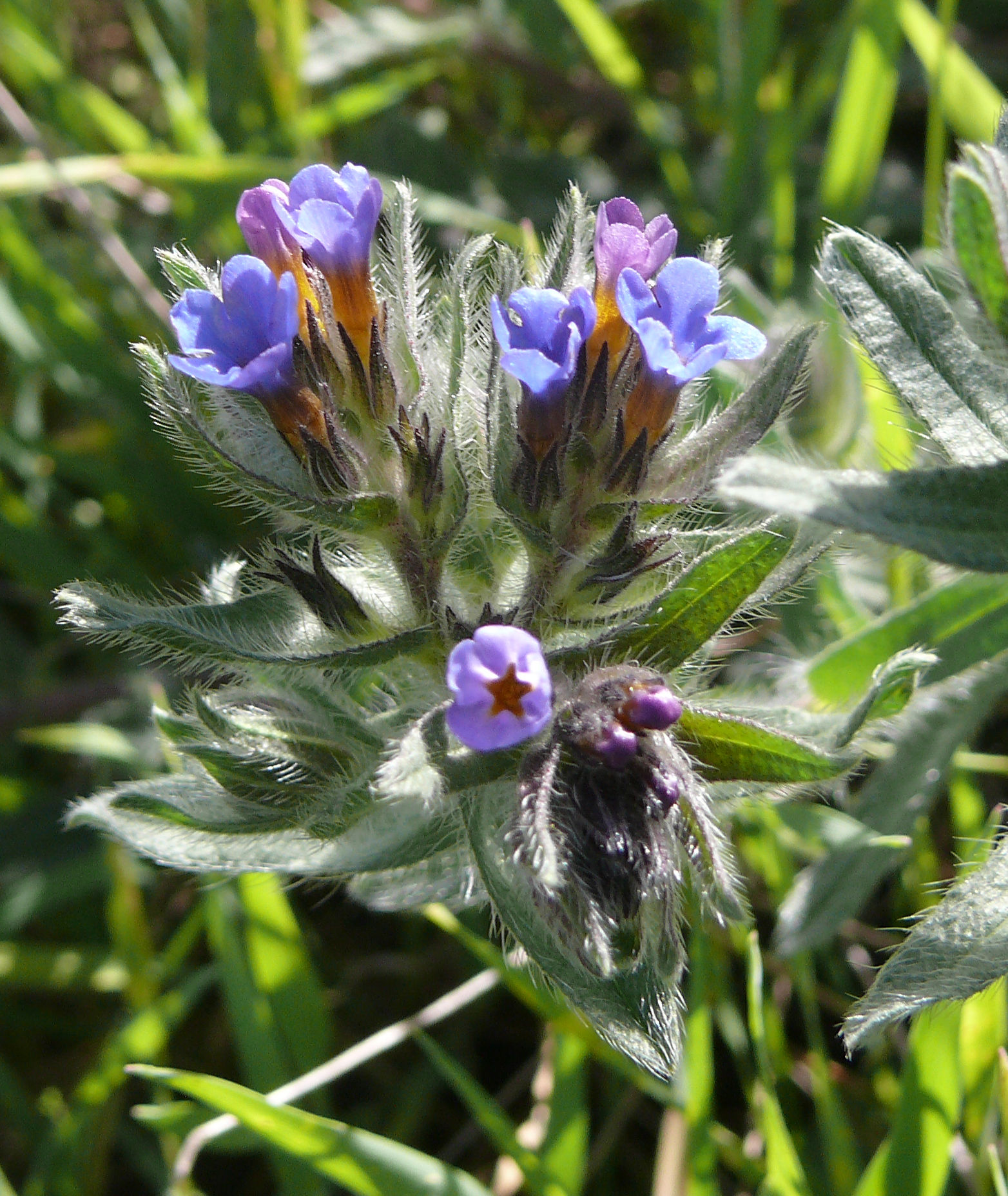 Alkanna matthioli Tausch